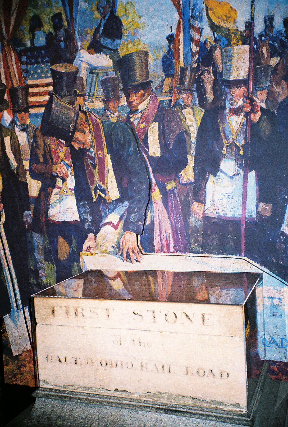 Cornerstone of the Baltimore and Ohio Railroad, laid on 4 July 1828 by Charles Carroll of Carrollton, last surviving signer of the Declaration of Independence. Displayed at the B&O Railroad Museum in Baltimore, Maryland, U.S.